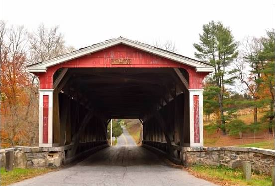 Smith's Bridge over the Brandywine Creek, November 2, 2015